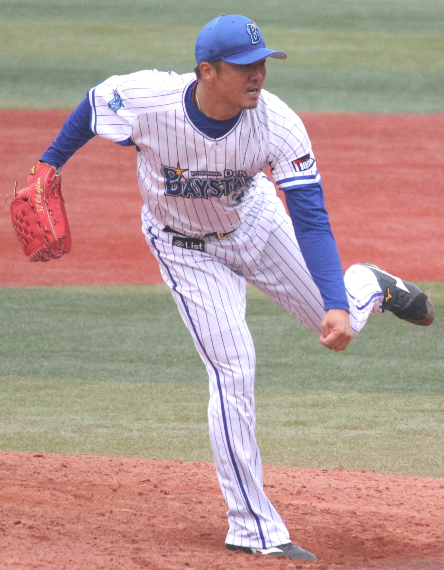 Hideki Okajima, pitcher of the Yokohama DeNA BayStars, at Yokohama Stadium.